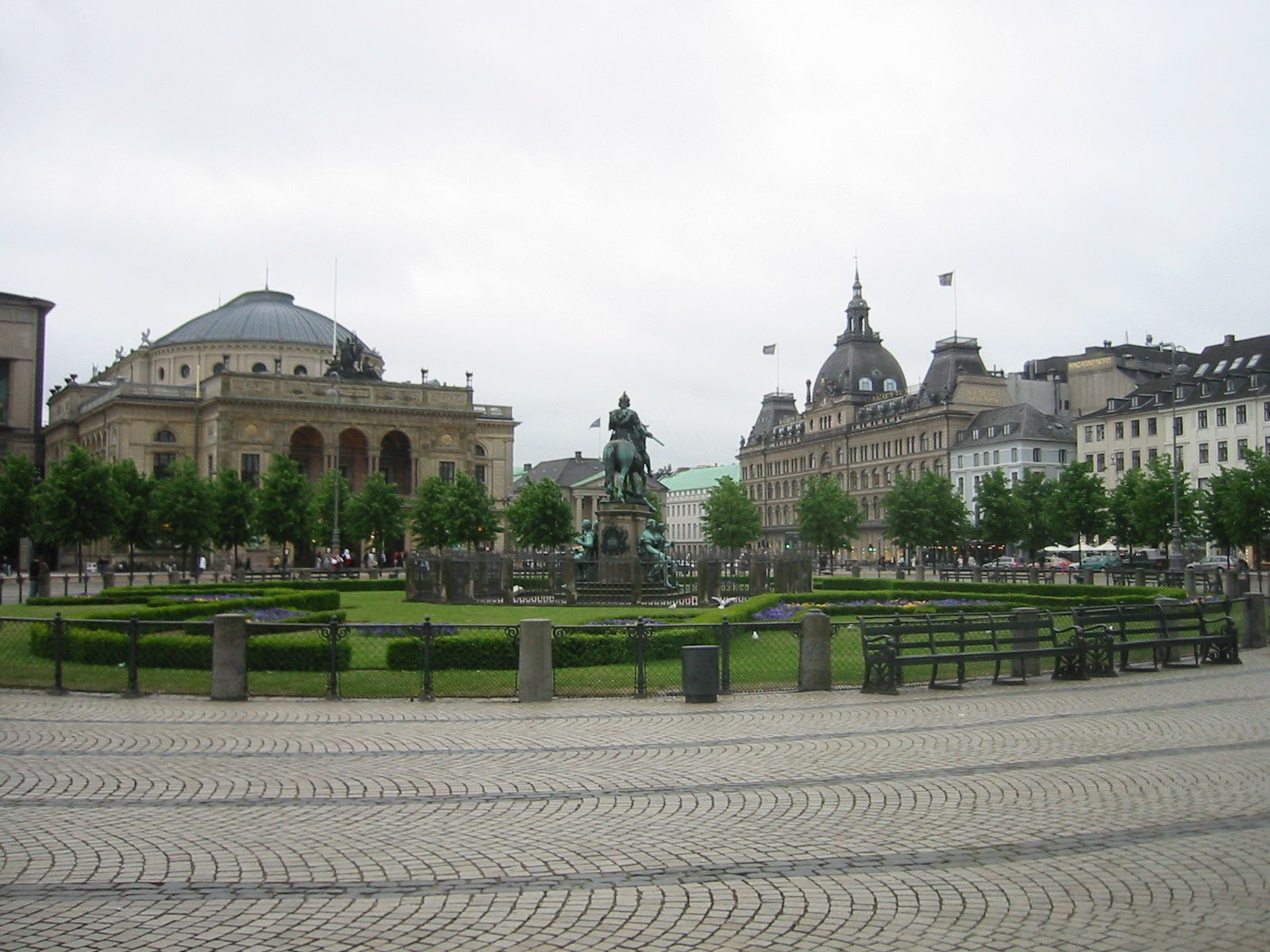 The square Kongens Nytorv in Copenhagen with Det Kongelige Teater (Royal Danish Theatre) and the department store Magasin du Nord.